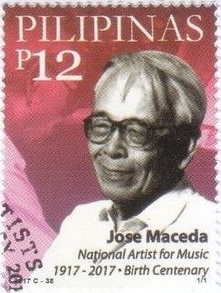 National Artists of the Philippines Birth Centennials, José Maceda